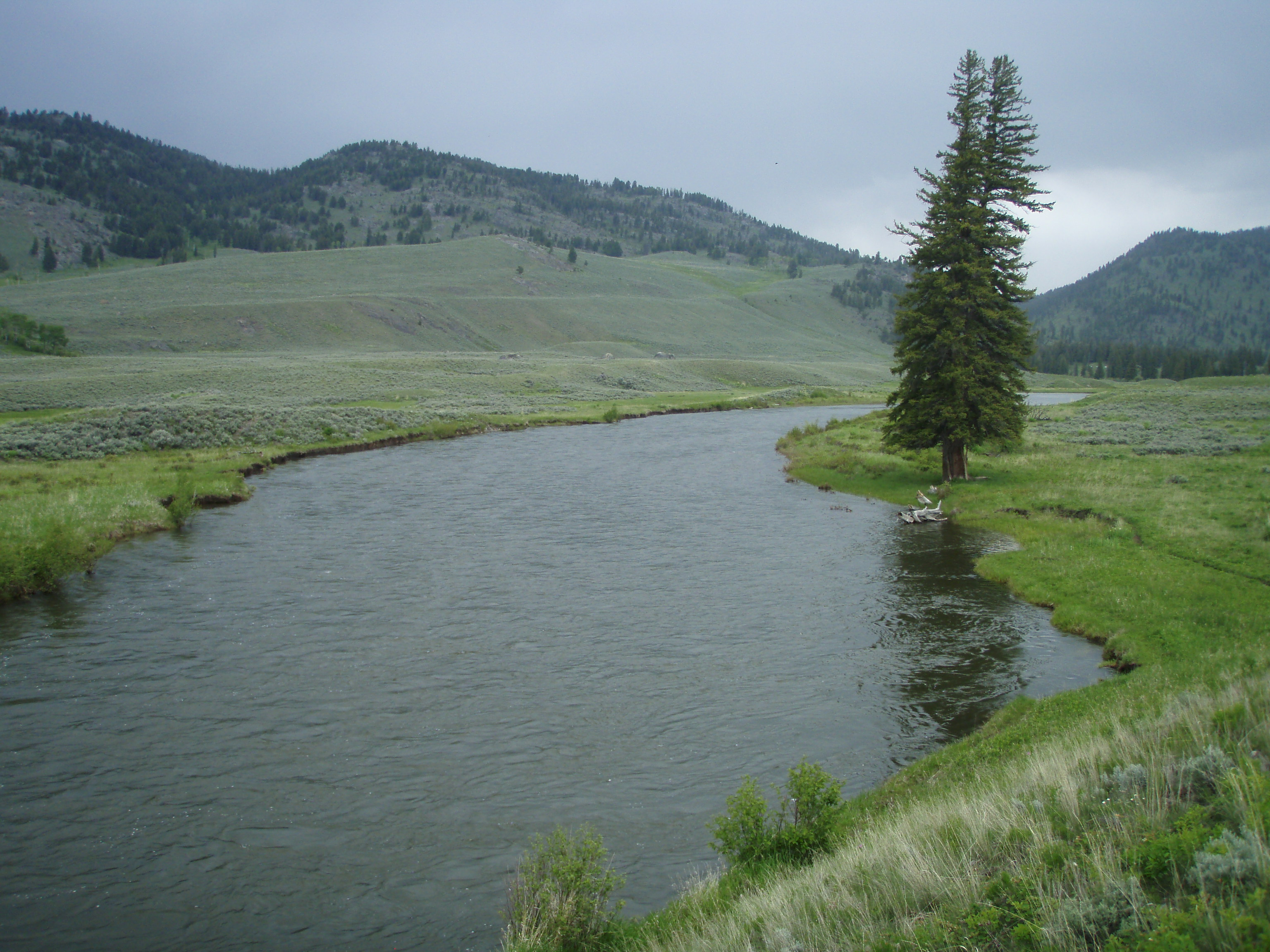 Lower Slough Creek, Yellowstone National Park, June 2009